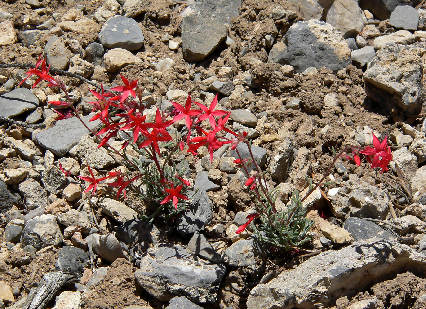 Ipomopsis arizonica in off State Road 158 near Desert View, Spring Mountains, southern Nevada